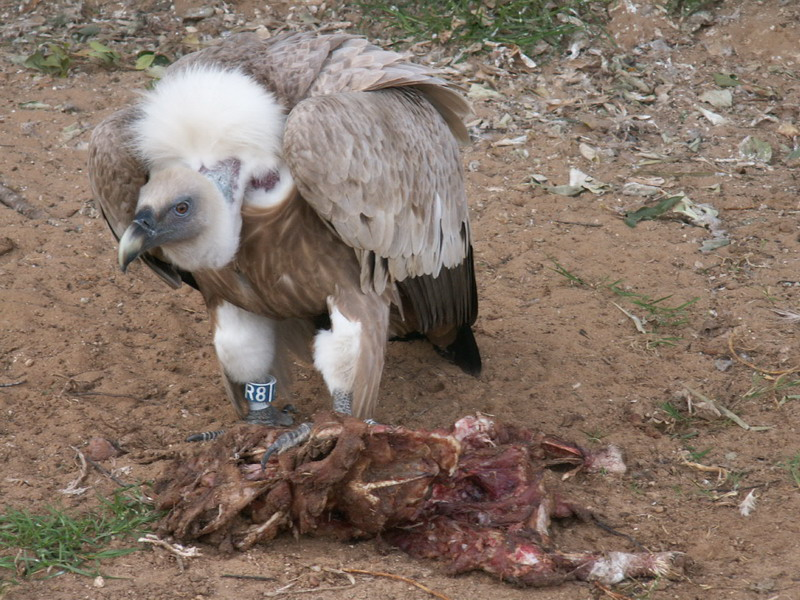 (tha same as ?)